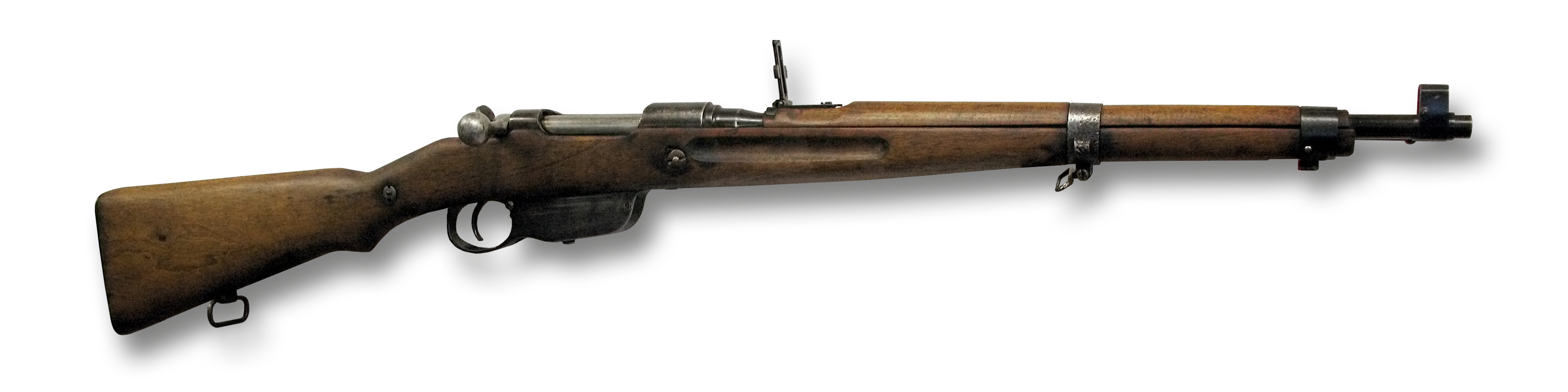 Steyr Mannlicher Repetierstutzen M95/30 (M1895) in the High Fortress, Salzburg, Austria